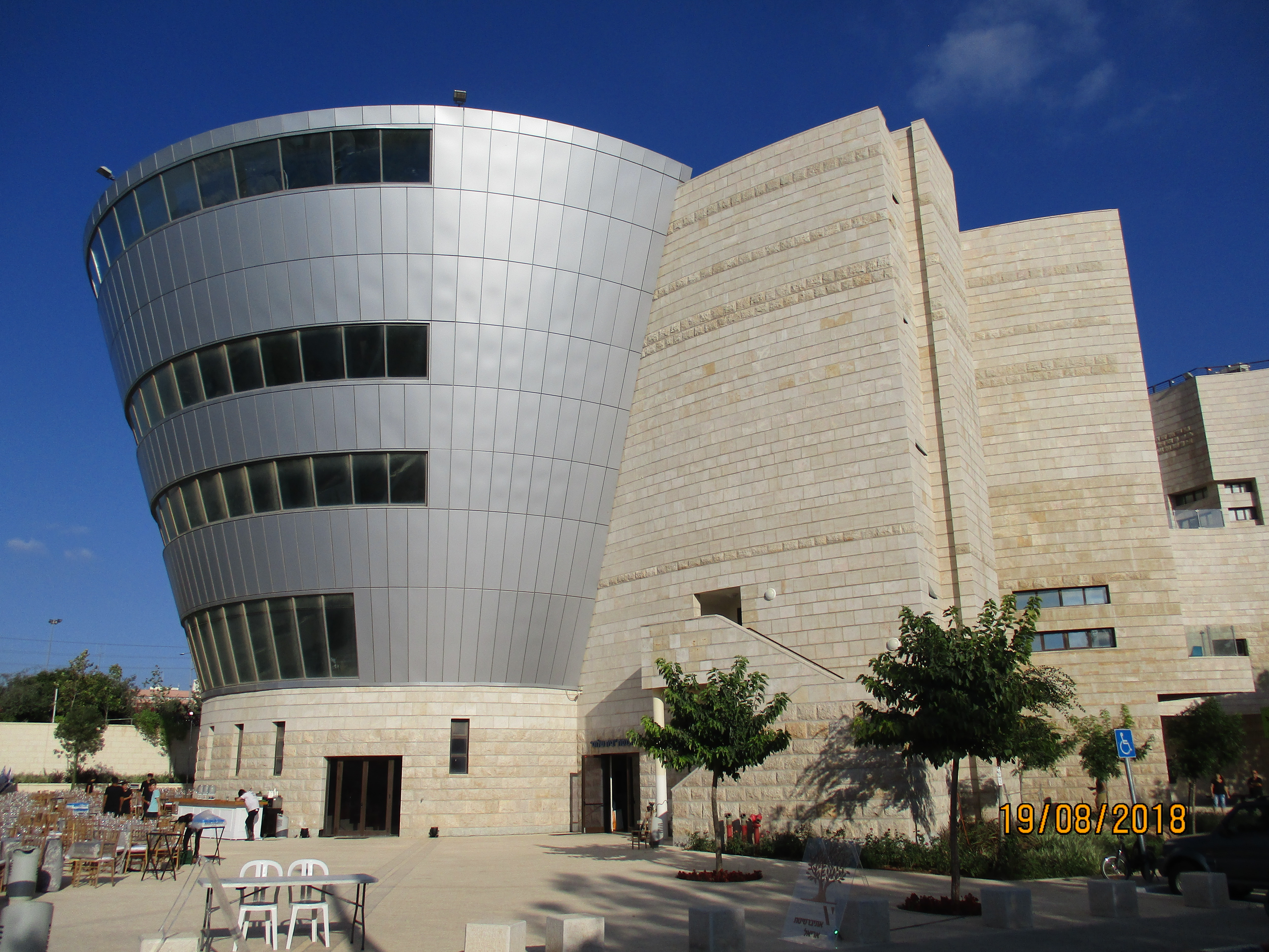 Ariel University - the cone-shaped portion of the library building